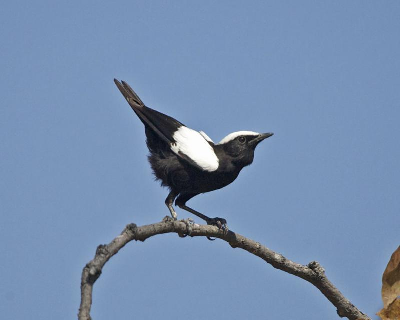 White-headed Black-Chat aka Arnott's chat Myrmecocichla arnotti Location: Moremi, Botswana Date: 7th. August 2011 Distribution: m 690V3573